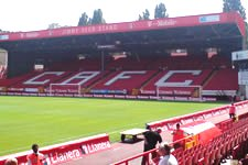 The Jimmy Seed Stand (South Stand),The Valley (London)